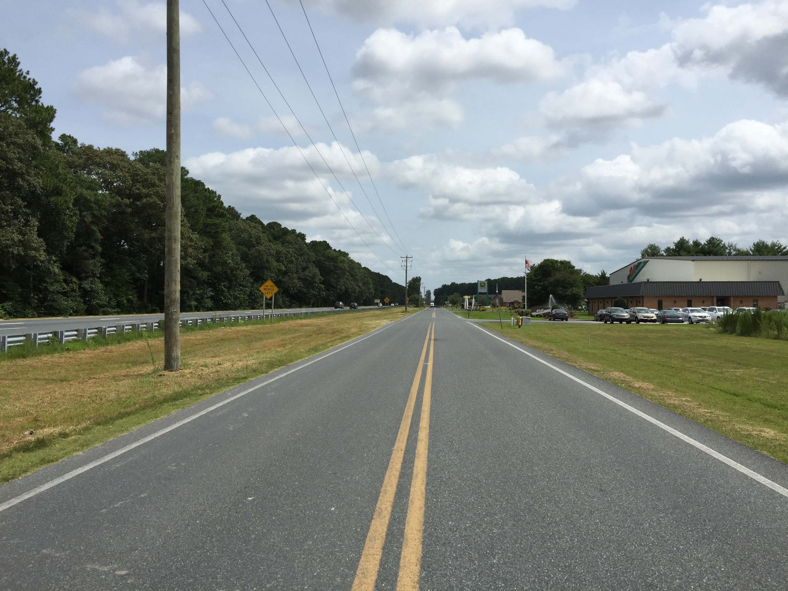 View east along Maryland State Route 992 (John Deere Drive) just east of Hobbs Road in Walston, Wicomico County, Maryland